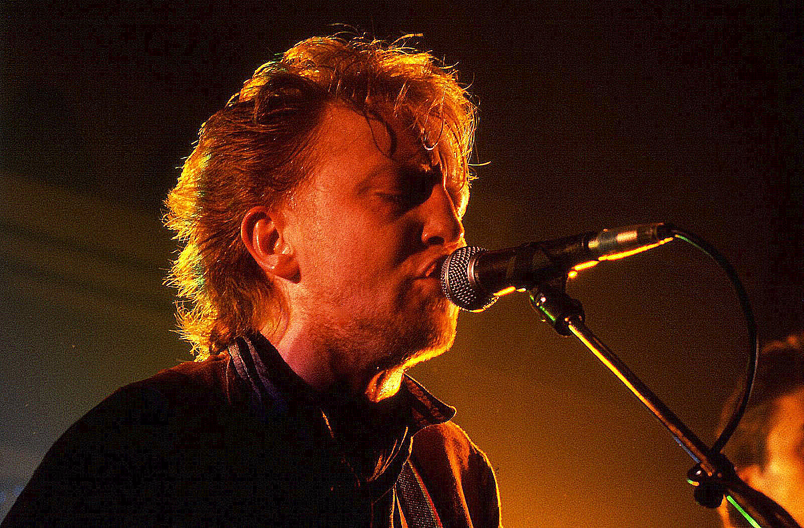 VINNIE PERFORMING IN DUBLIN 1990